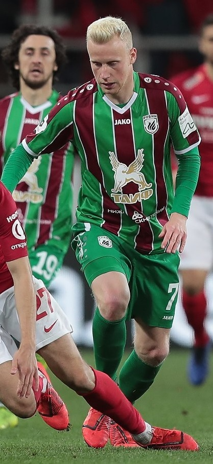 Vyacheslav Podberyozkin with FC Rubin Kazan in a game against FC Spartak Moscow.